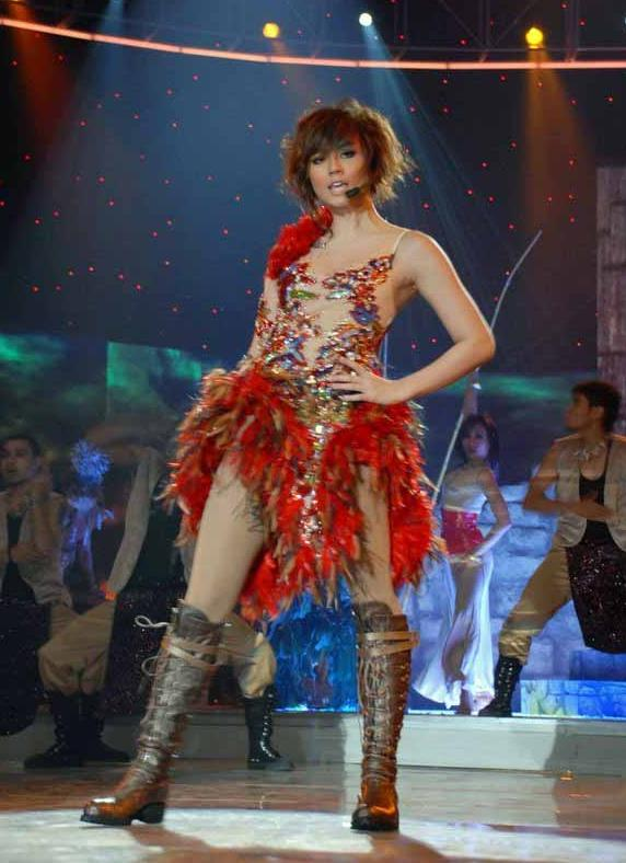 Agnes performing as a guest star at 2007 Asian Idol